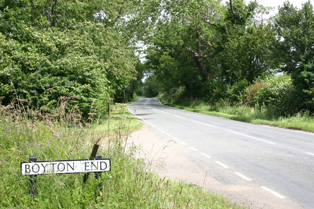 Road sign Boynton End consists of just a few houses